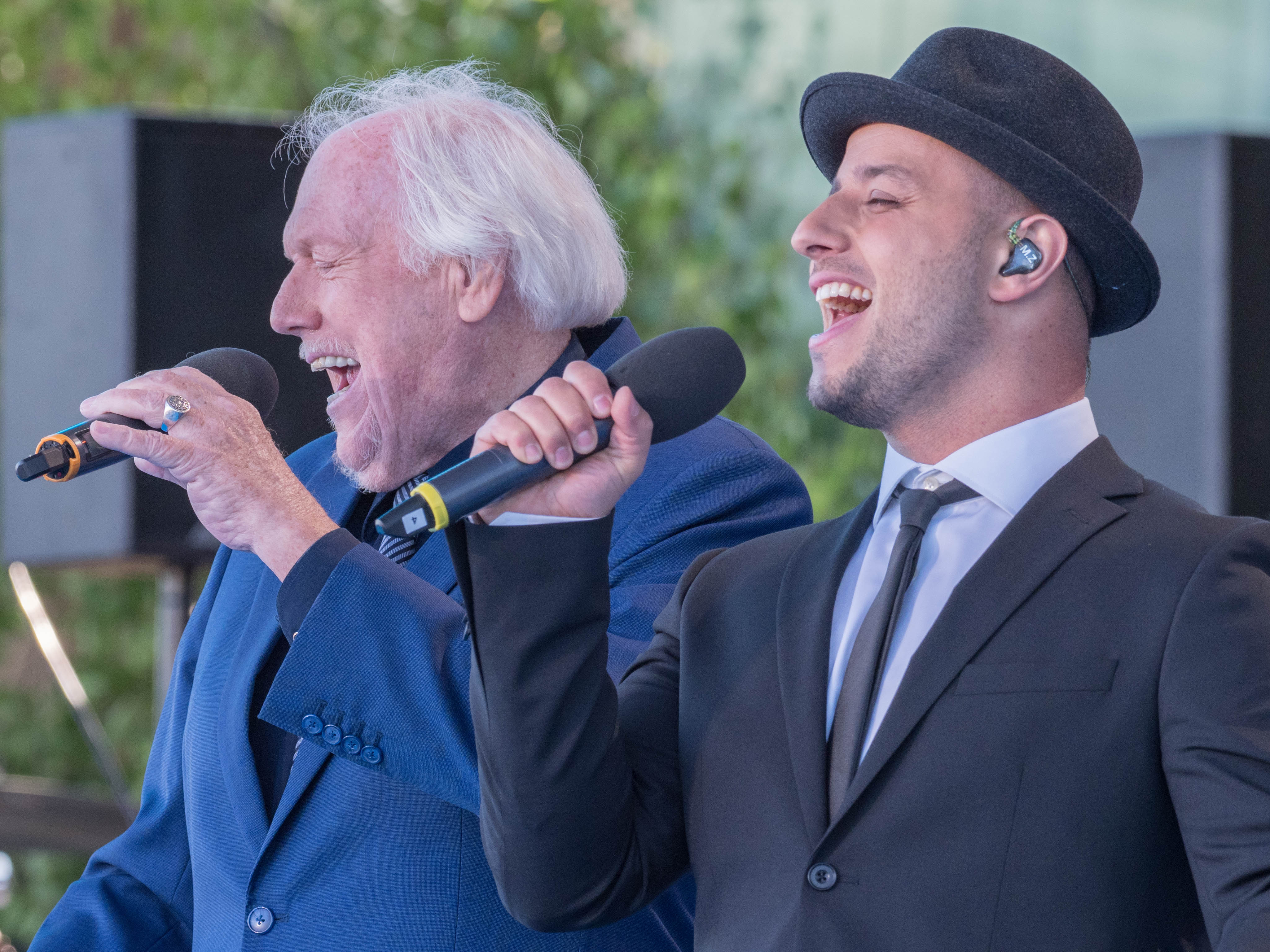 Svante Thuresson and Maher Zain